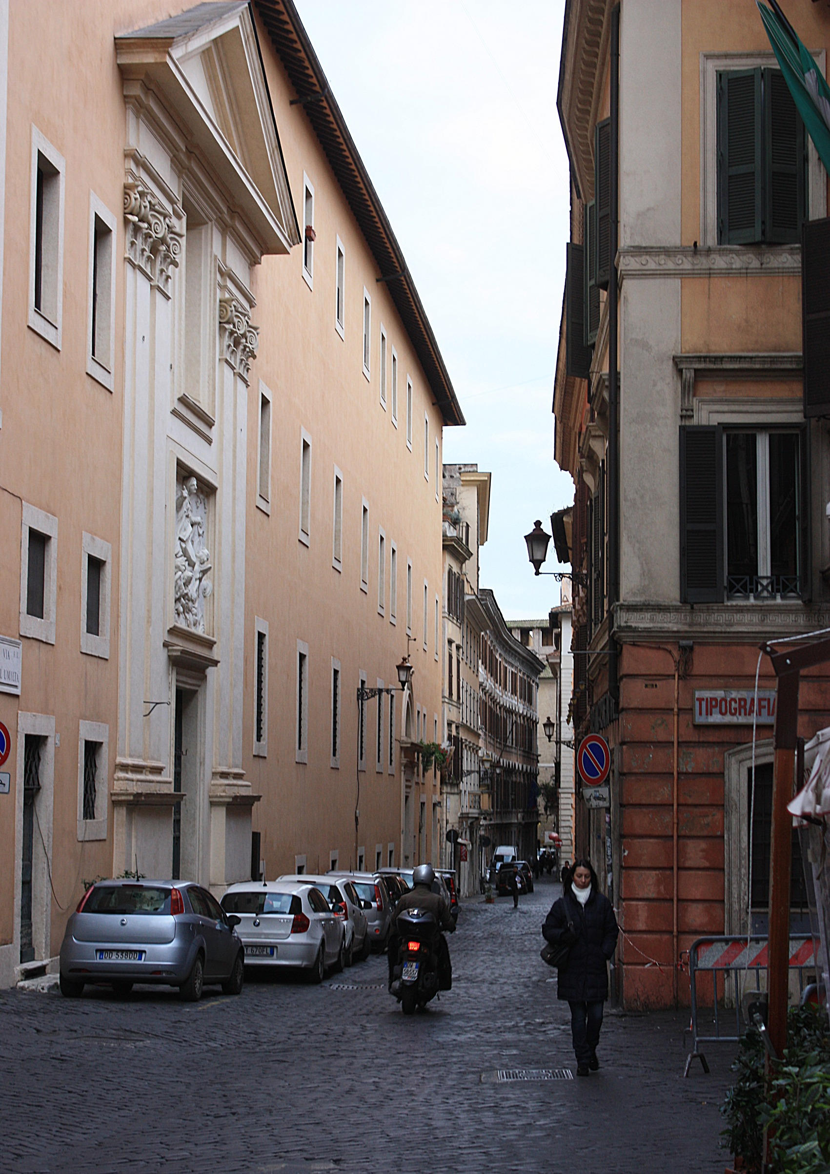 Rome, the street Via dell'Umiltà